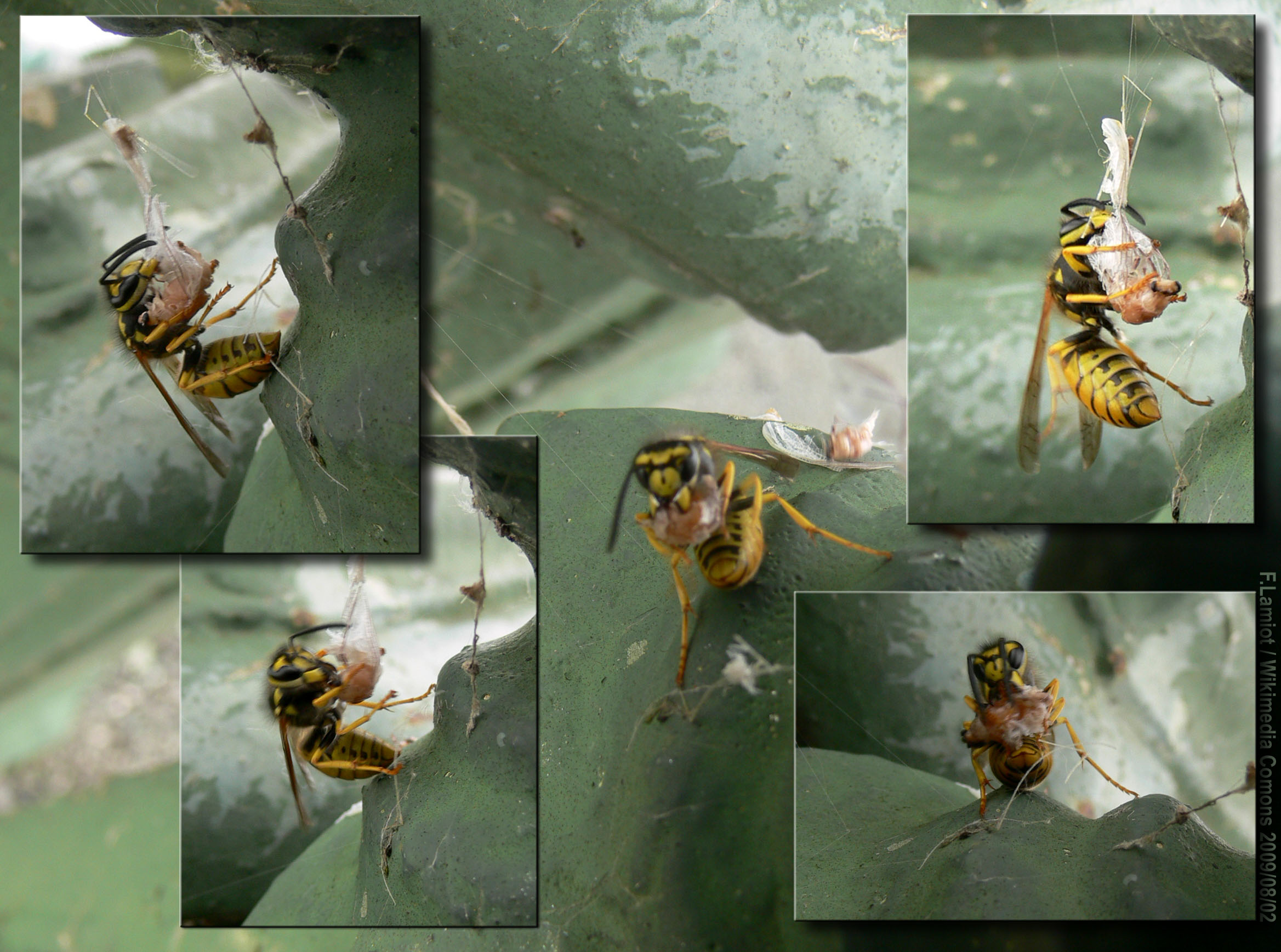 Briare canal bridge over the Loire (France). Example of enviromental impact of "light pollution" on some insects of the Loire River (which is often described as the last wild river in France). More lights are close to the center of the Loire (on the bridge that crosses it at right angles), the more lights attract insects at night just emerging from the water (rem: Some of these insects (Trichoptera sp., Plecoptera sp. including Ephemeroptera) are regarded as "bioindicators" indicating good water quality, and are rapidly declining in France since the early twentieth century). On this bridge, the further away to the right or left banks of the river Loire, under the lights attract insects. The amount of cobwebs (Spider web), the number and size of spiders and the number of bodies of insects are clues to the amount of trapped insects and, since every morning wasps come - sometimes hundreds - "steal" the spiders on their web, part of dead insects they were killed and stored in a sheath of silk in the night. Because of the heat lamps and their intensity, these spiders have an abnormally prolyxe food, and they are unusually numerous. This phenomenon seems to be what ecologists call a "green shaft". Bats and fishes could also be perturbed by this light.